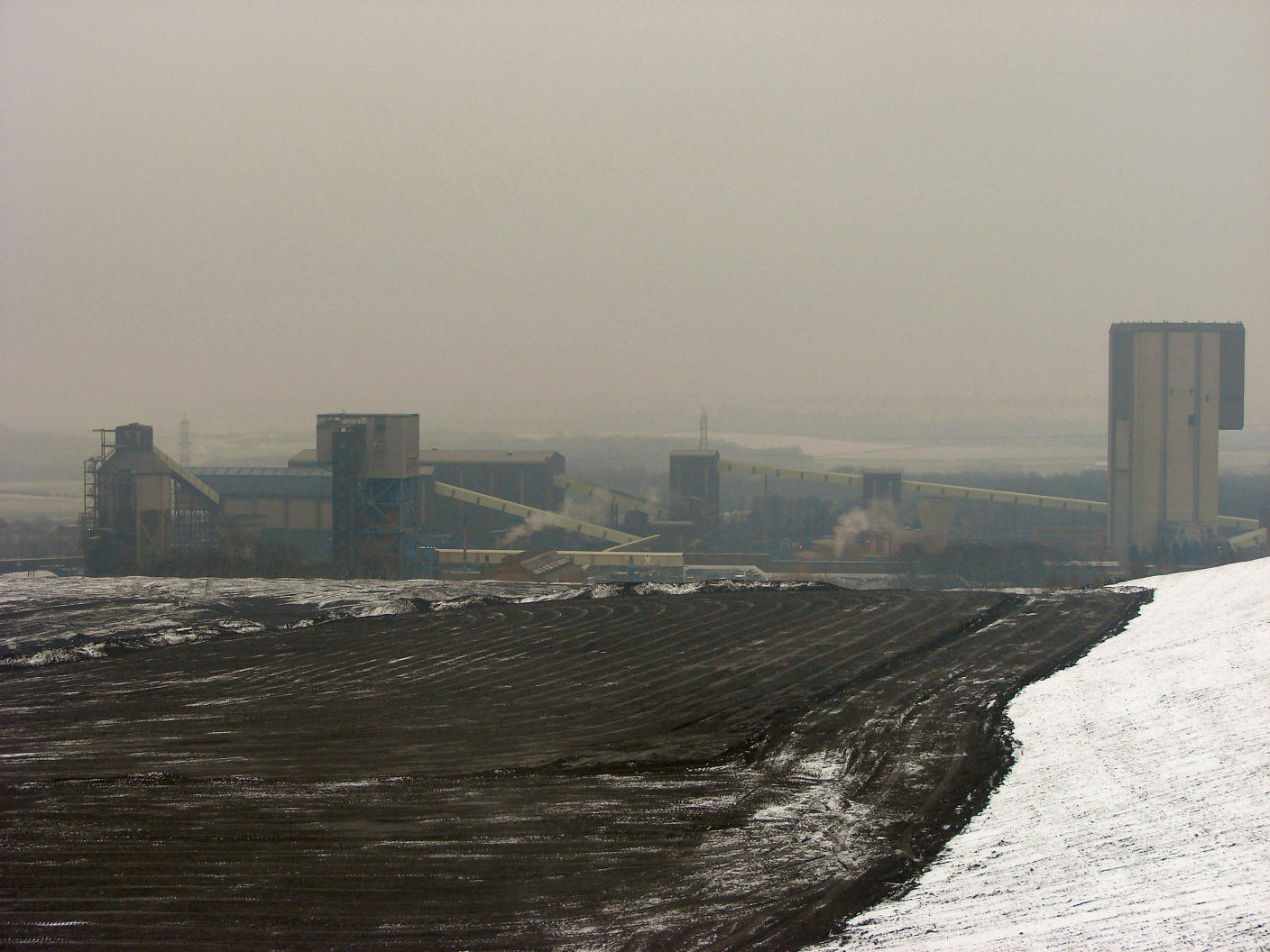 Maltby Colliery February 9th 2007. Taken by Craig Mounsey.